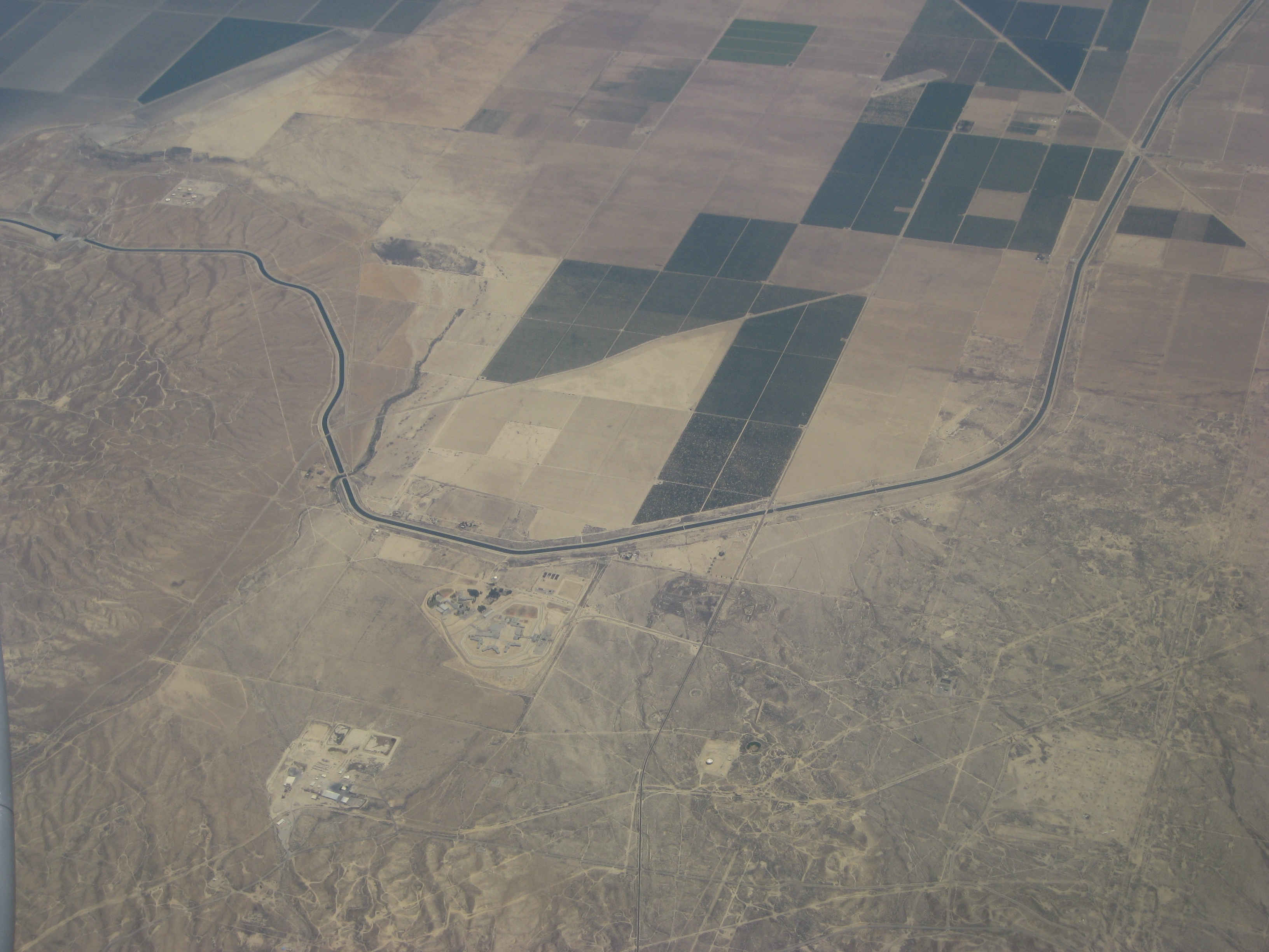 Taft Correctional Institution In 1997, the Bureau of Prisons (BOP) signed a contract with the Wackenhut Corrections Corporation (now The GEO Group) to manage and operate a new government-owned low-security correctional facility in Taft, California, designed to hold a total of 2,048 adult male inmates. i090527 089